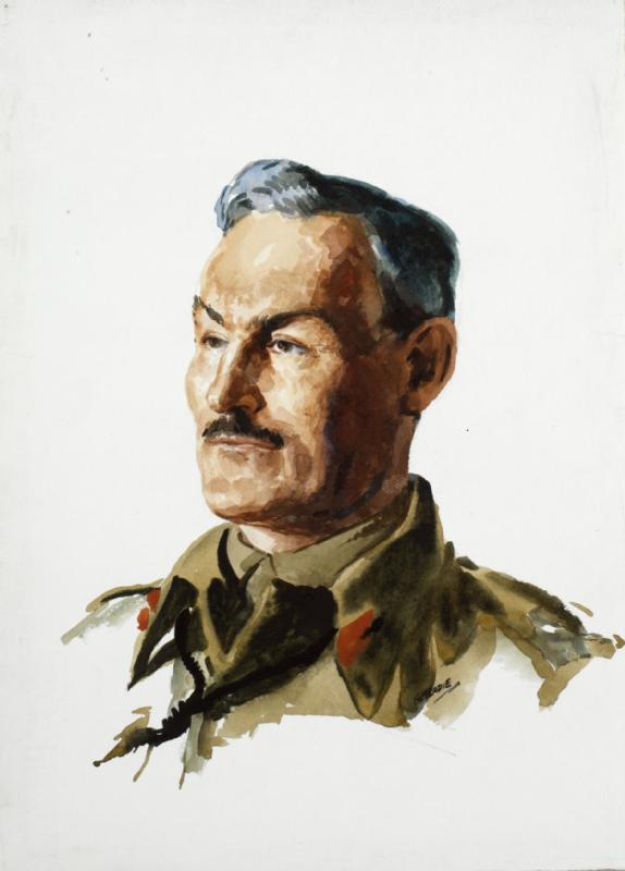 Major-general D a H Graham, Cbe, Dso, Mc - 51st Highland Division image: A head and shoulder portrait of Major-General D A H Graham in uniform.